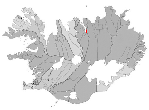 Based on Municipalities of Iceland.png.